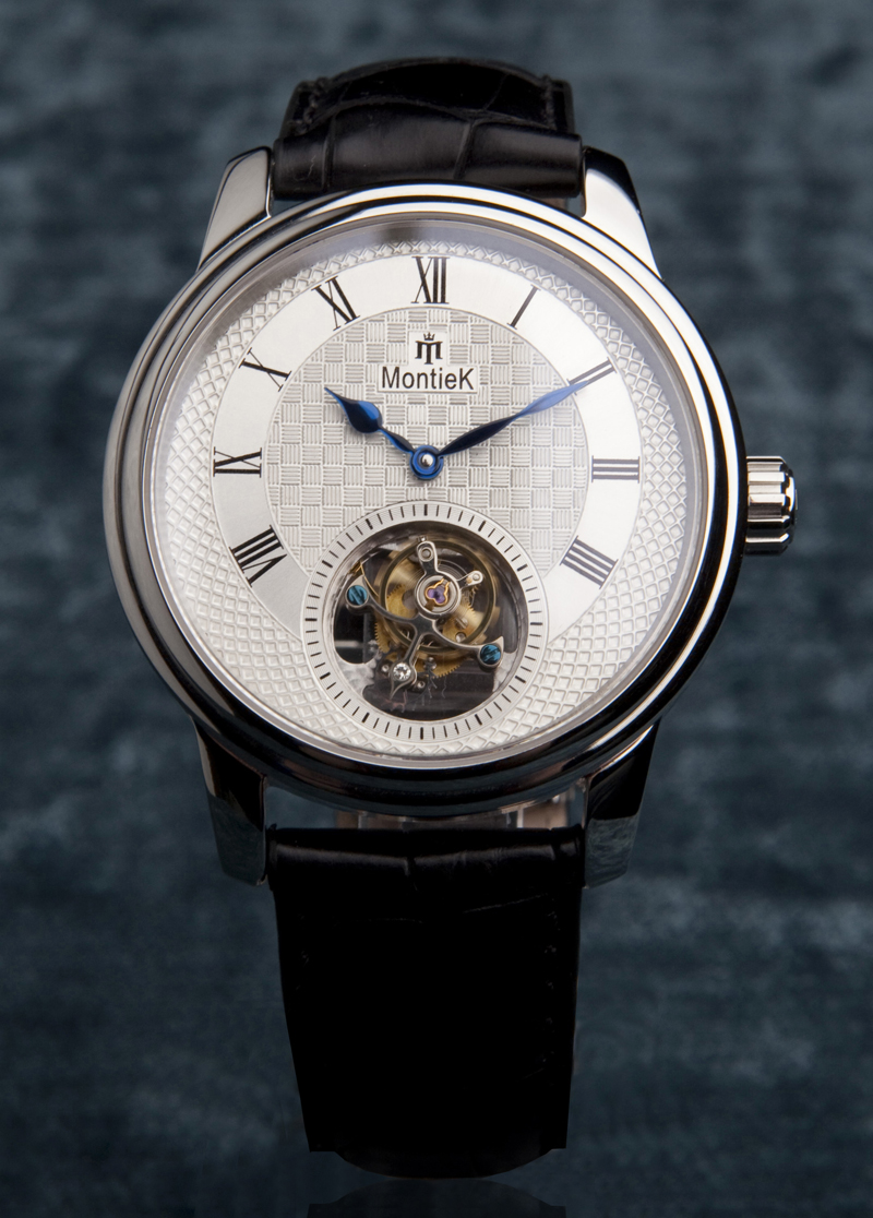 MontieK MPTS-01 Tourbillon watch as photographed by Hugo van der Meer - Keyframe productions. The watch features a ST8000 movement.